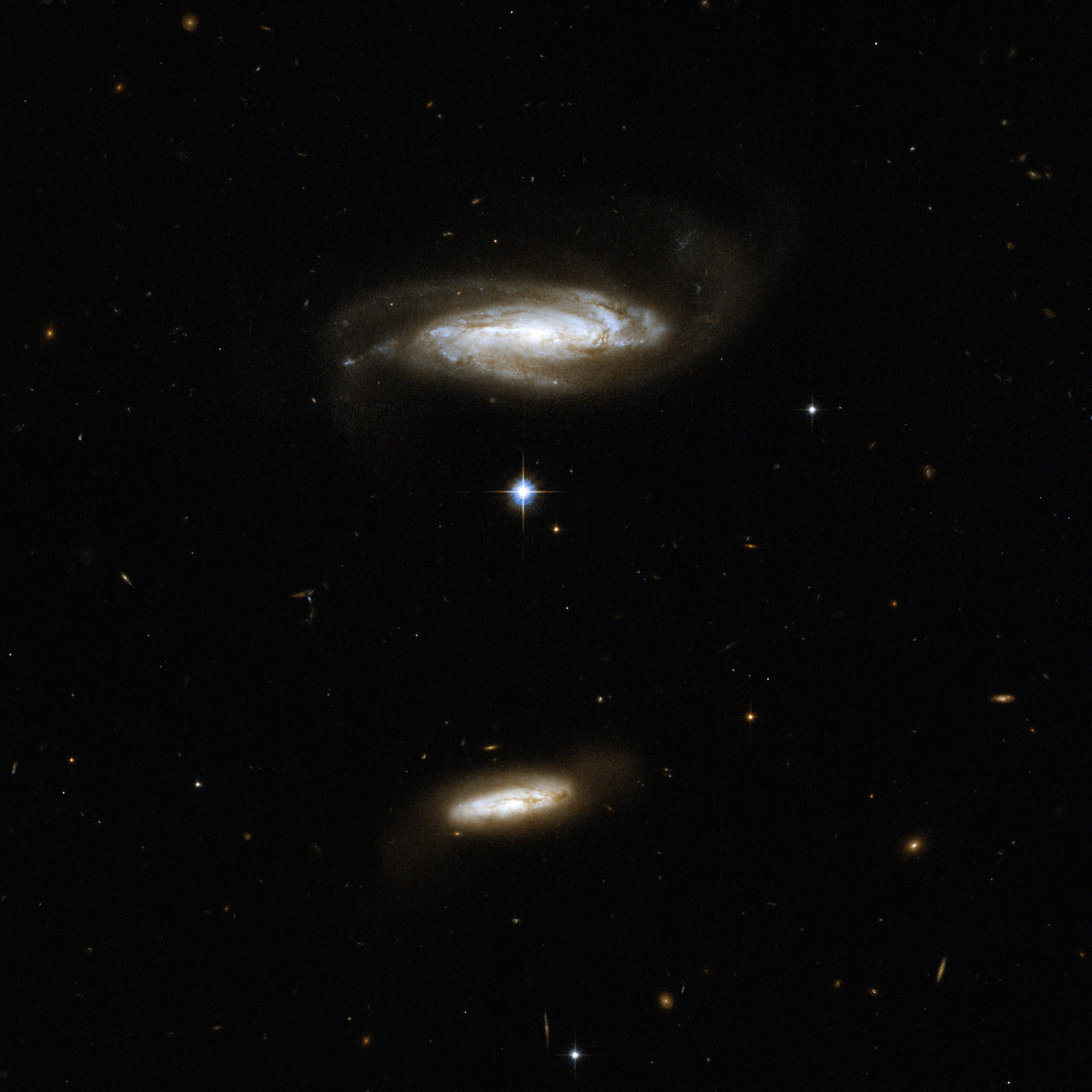 IC 2810 is a disk galaxy viewed nearly edge-on. It is slightly disturbed by gravitational interaction with a smaller, dusty companion (located to the bottom of the image). The larger galaxy shows blue knots of star formation. Although the pair has no overlapping region at present, it is possible that the two will eventually collide in the future. IC 2810 is located in the constellation of Leo, the Lion, about 450 million light-years away. This image is part of a large collection of 59 images of merging galaxies taken by the Hubble Space Telescope and released on the occasion of its 18th anniversary on 24th April 2008. About the objectObject nameIC 2810Object descriptionInteracting GalaxiesPosition (J2000)11 25 45.20 +14 40 35.0ConstellationLeoDistance450 million light-years (150 million parsecs)About the dataData descriptionThe Hubble image was created using HST data from proposal 10592: A. Evans (University of Virginia, Charlottesville/NRAO/Stony Brook University)InstrumentACS/WFCExposure date(s)November 19, 2001Exposure time33 minutesFiltersF435W (B) and F814W (I)